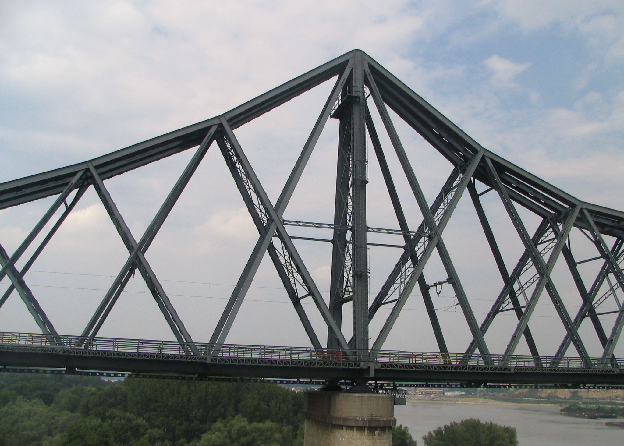 A Pillar of the Anghel Saligny Bridge.